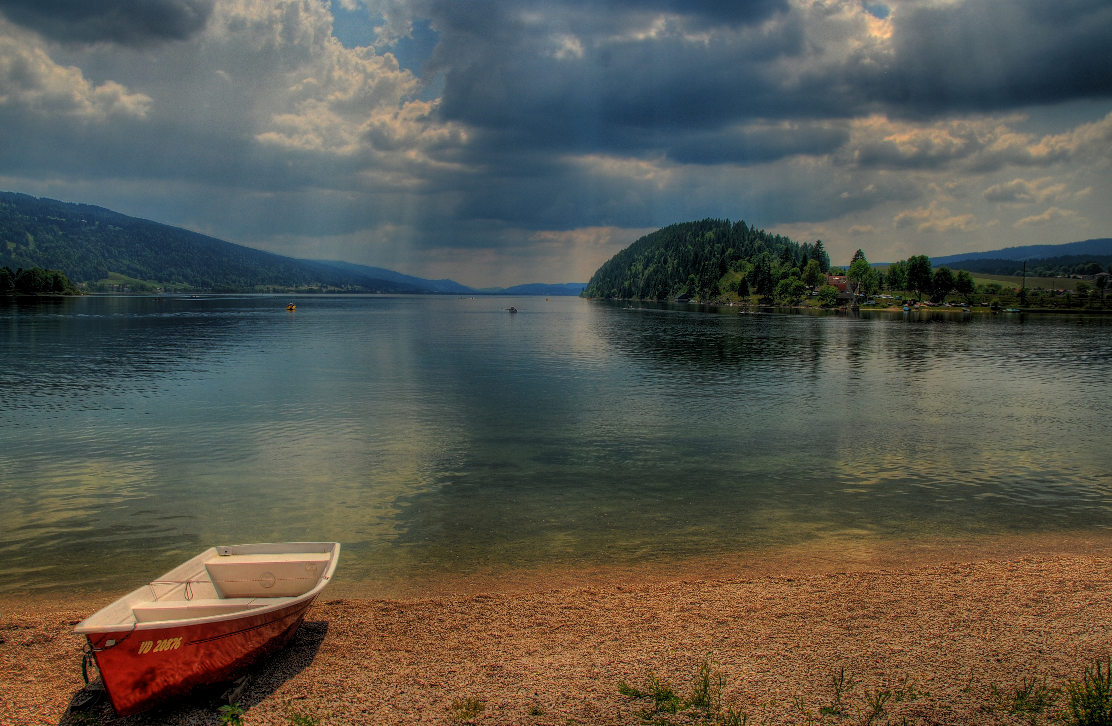 Lac de Joux, canton of Vaud. Surface elevation: 1004 m. View from the northeastern shore.